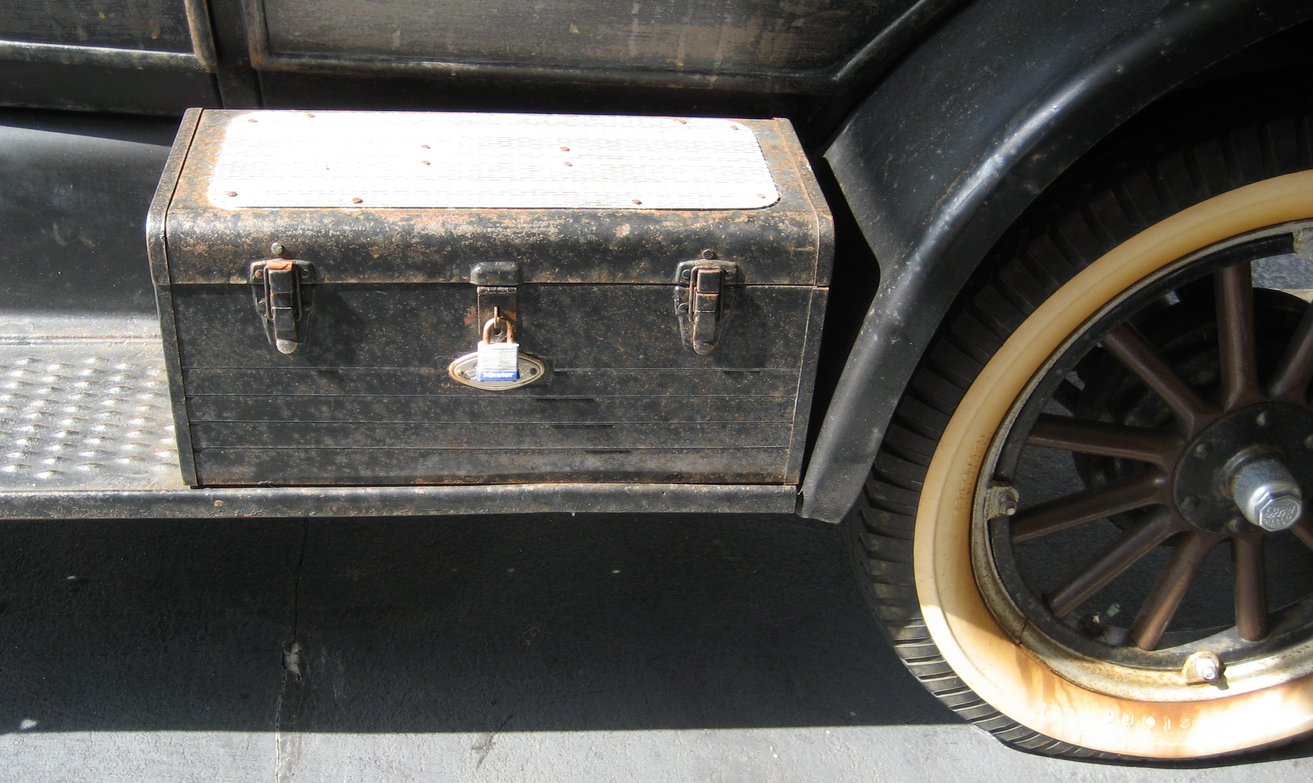 Ford running board storage box on 1926 Ford Model T outside hotel in Deerfield Beach, Florida